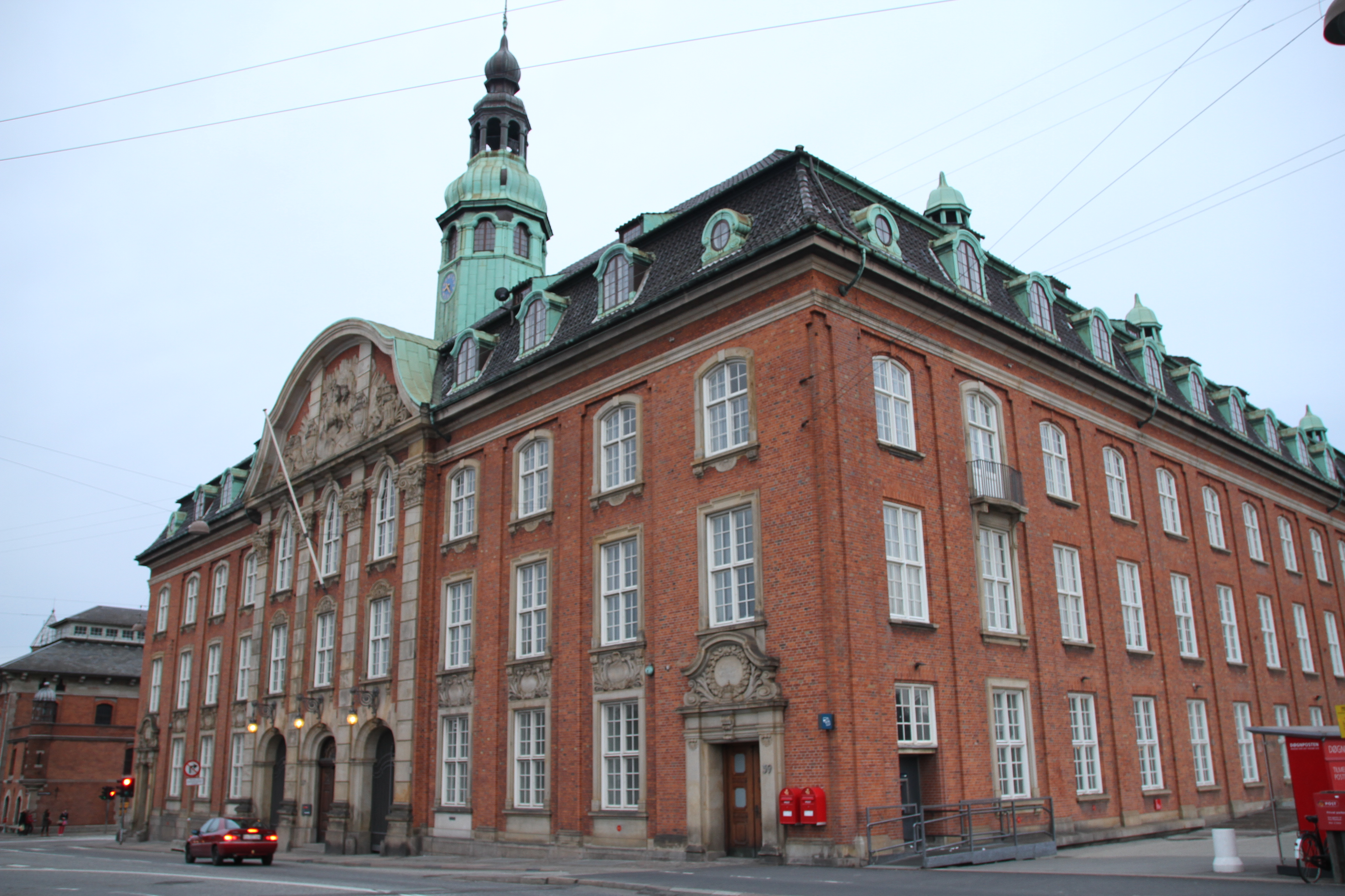 Images from copenhagen, the capital of Denmark.